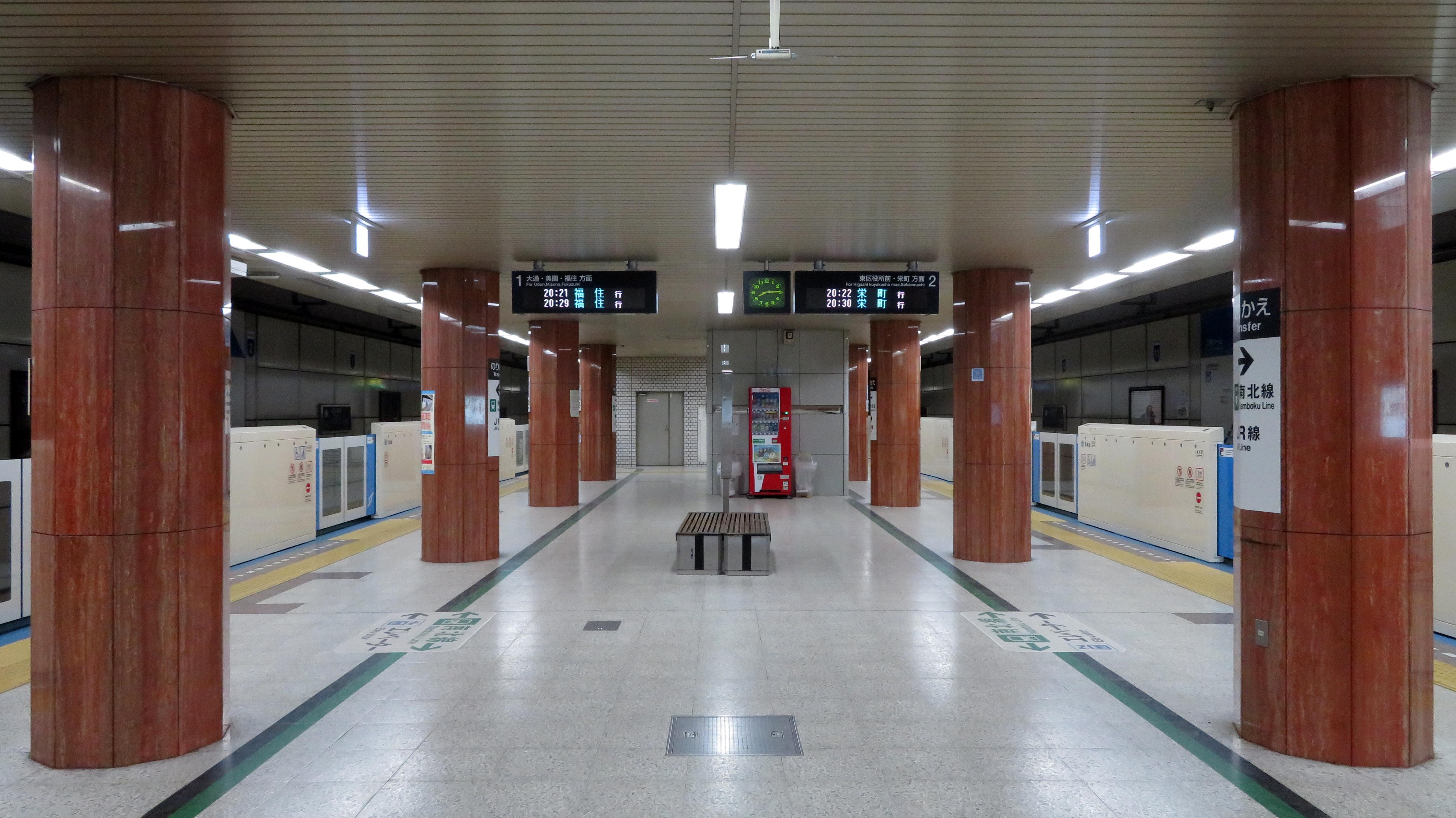 Toho Line Sapporo Station Home